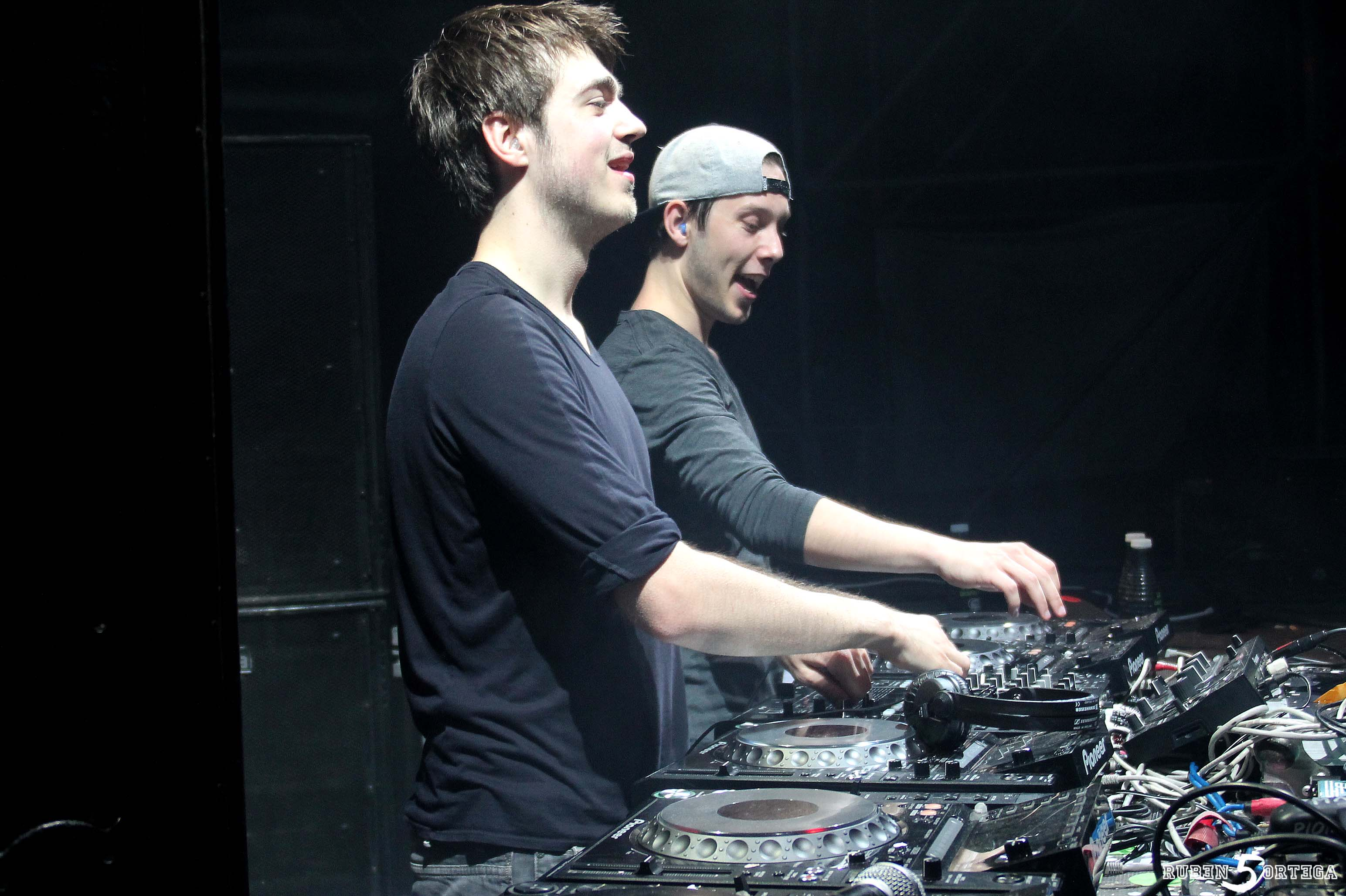 Vicetone performing at the 2014 NightFall Fest in Alicante, Spain